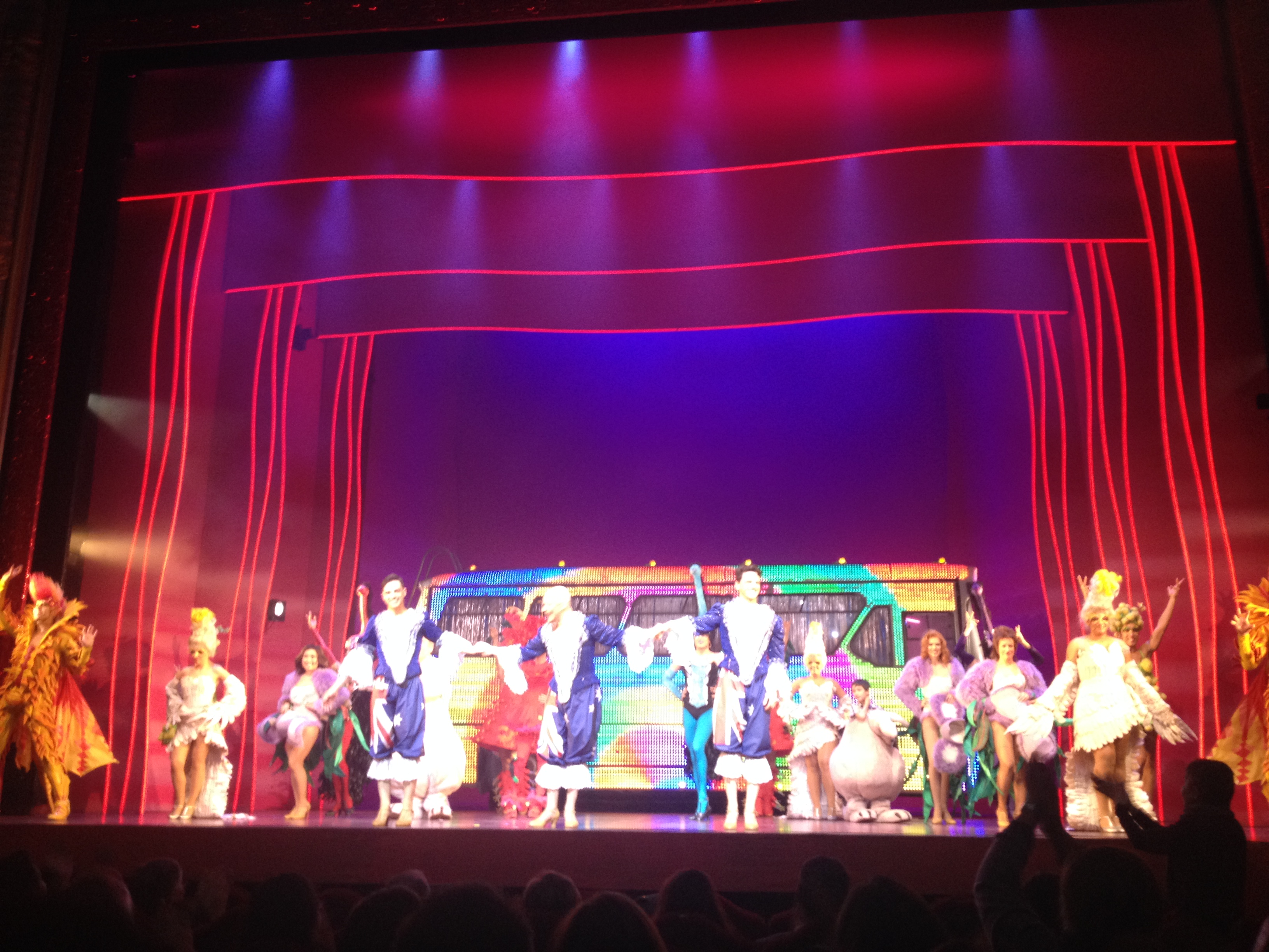 Saludos finales en la representación de Madrid del musical Priscilla, reina del desierto